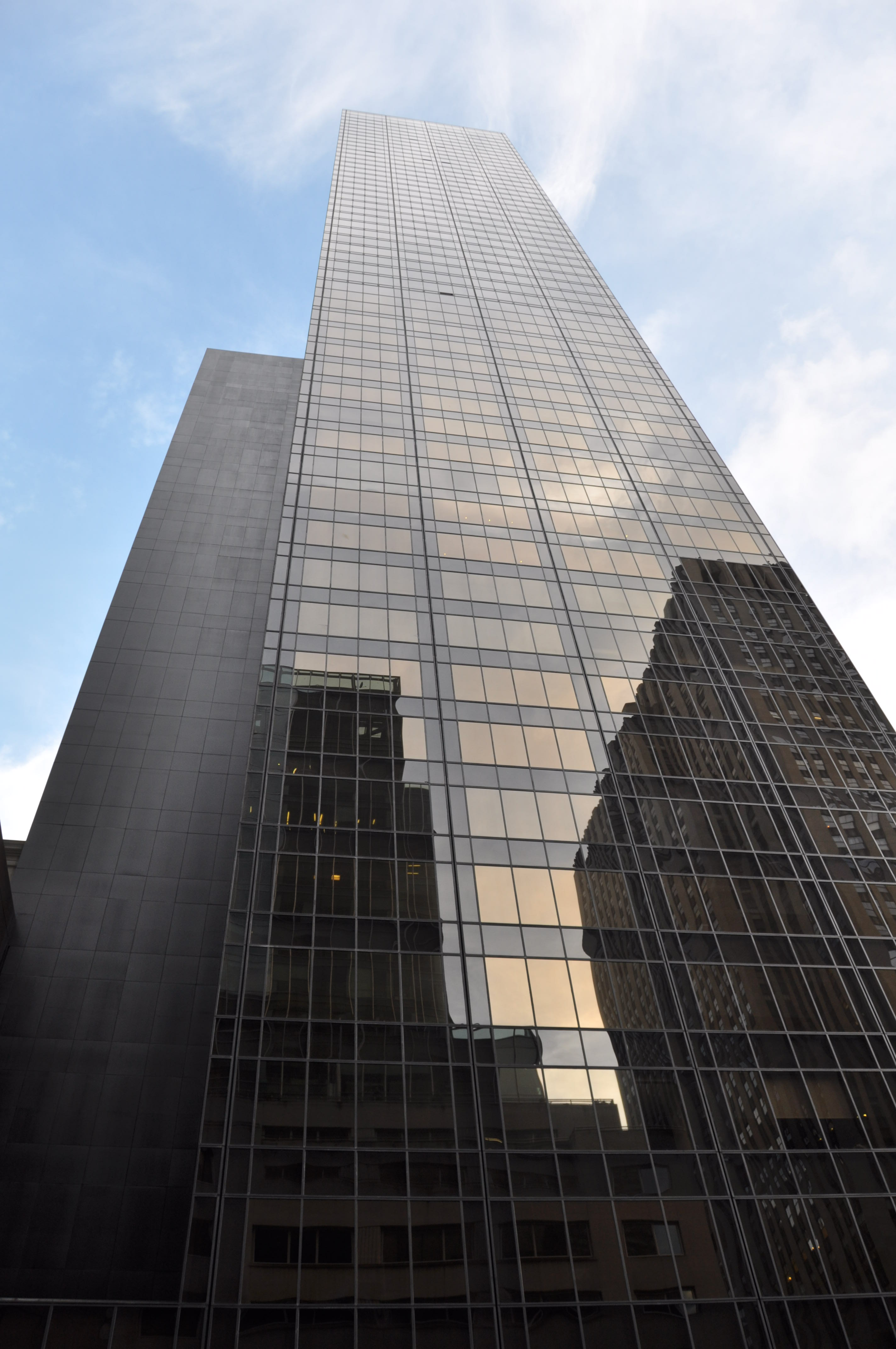 Onassis Cultural Center of the Alexander S. Onassis Foundation in New York City